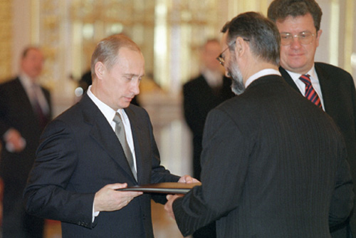 THE KREMLIN, MOSCOW. Ambassador of the Islamic Republic of Iran Gholam Reza Shafei presenting his credentials to President Putin.